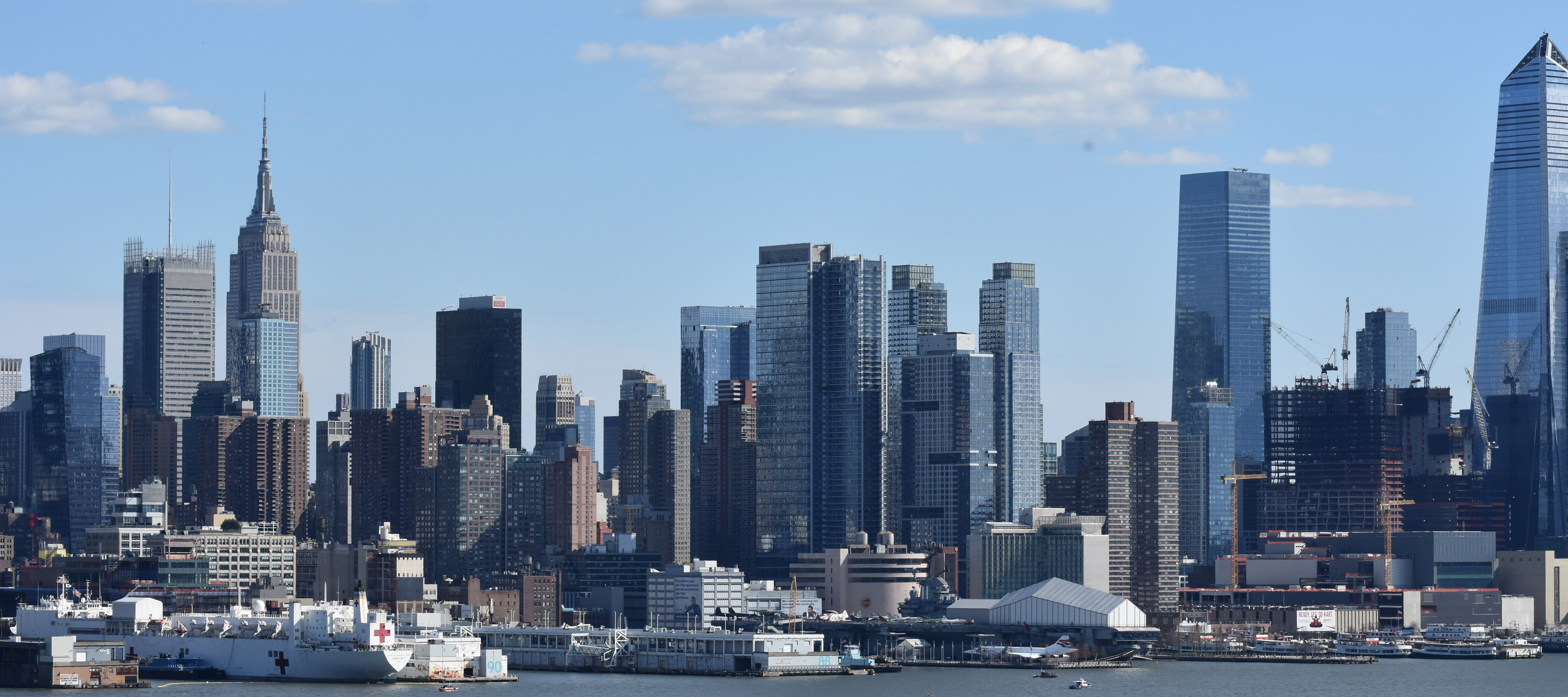 The USNS Comfort, to the lower left, dispatched to provide medical services during the COVID-19 pandemic. The Javits Center, to the lower right, has been converted to a field hospital. The Intrepid Sea, Air & Space Museum is bottom center. 1 April 2020.